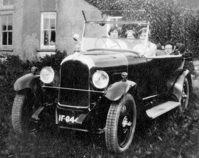 Model A Ford 1929/30 4 door Phaeton with a Cork (Ireland) registration plate